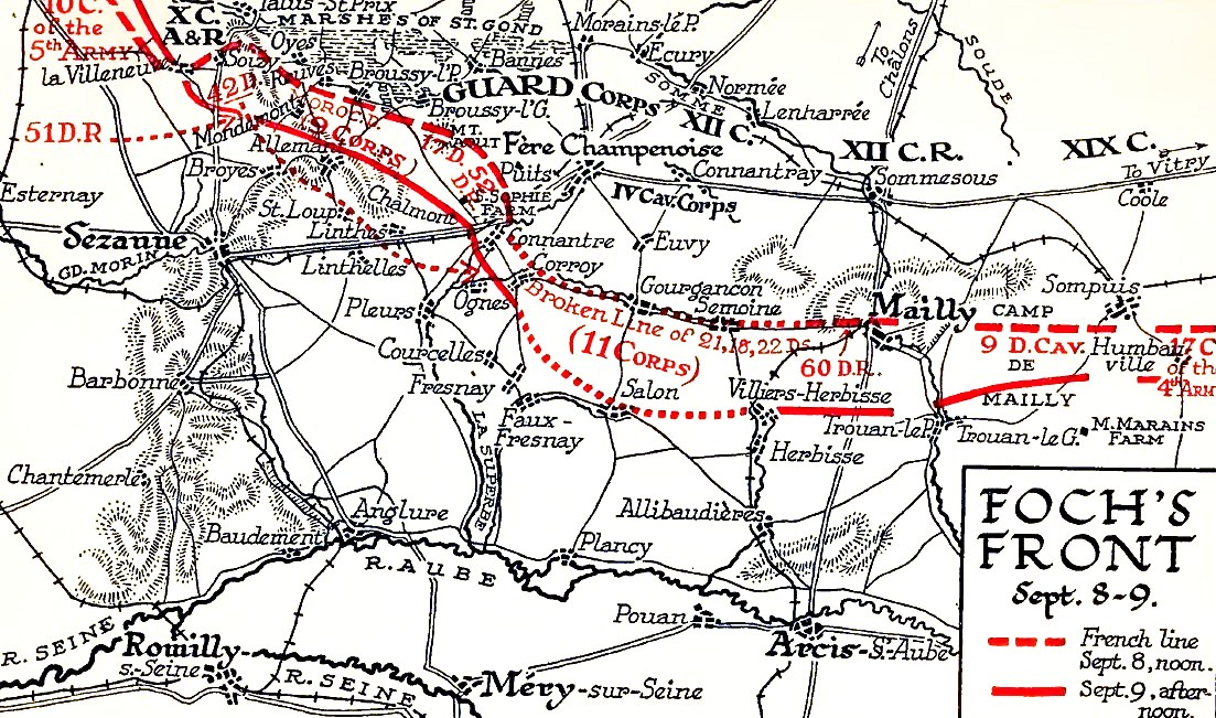 Map: Battle of the Marne, 9th Army front, September 1914